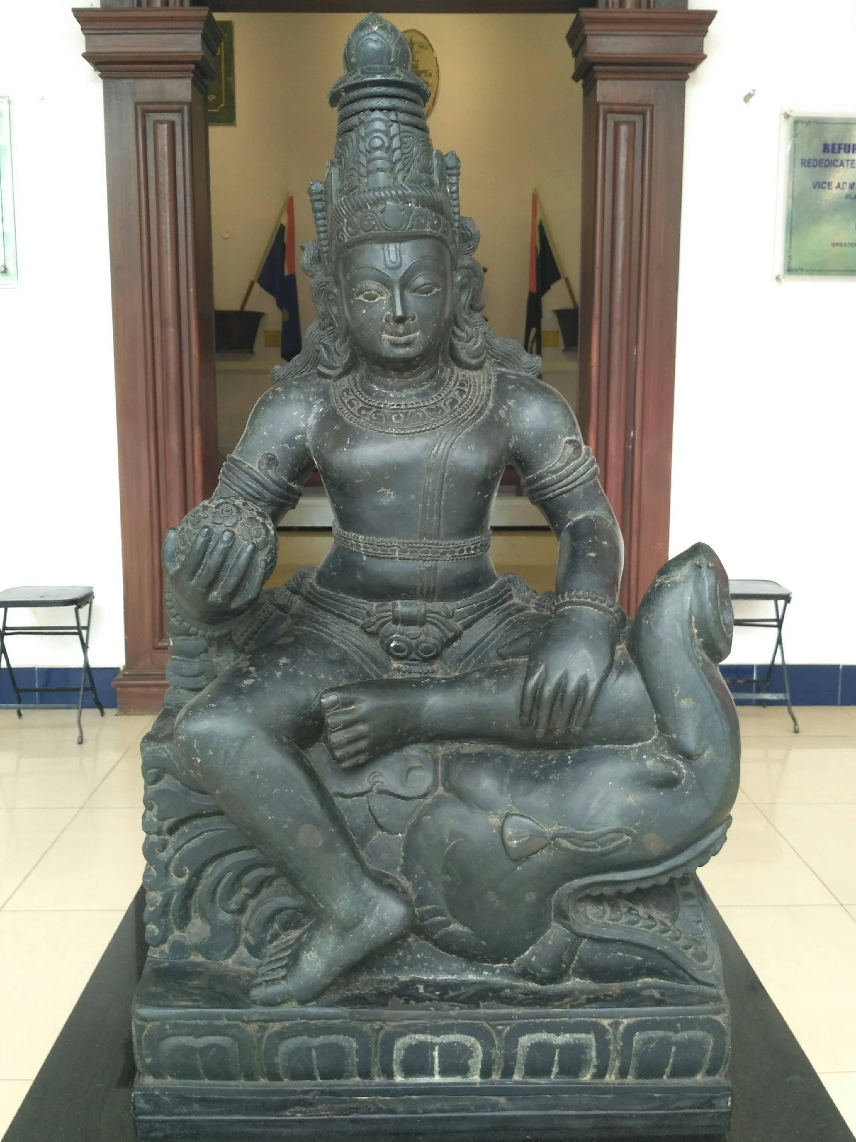 Idol of Varuna, Hindu God of the ocean, at the Maritime wing of Visakha Museum